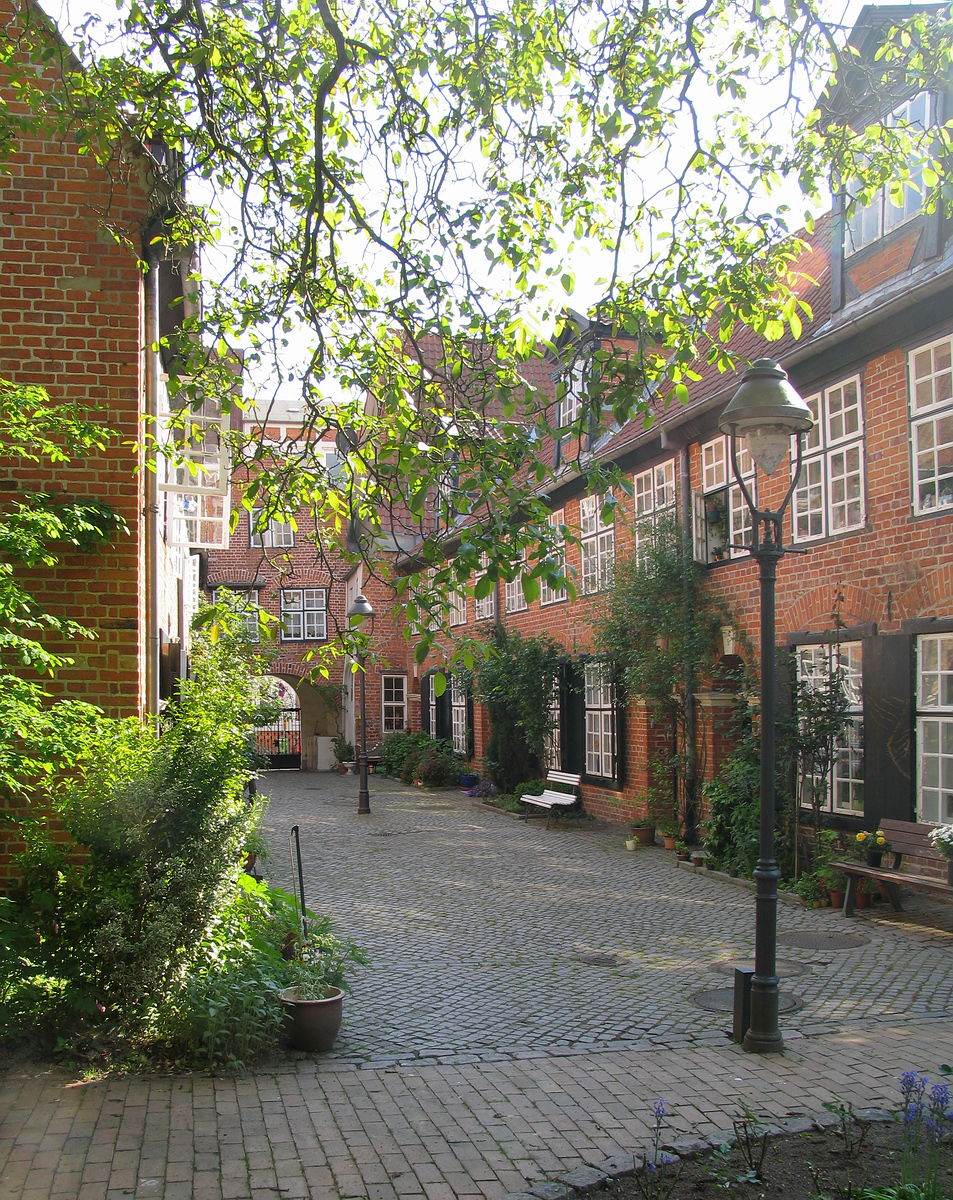 Haasen Courtyard Lübeck